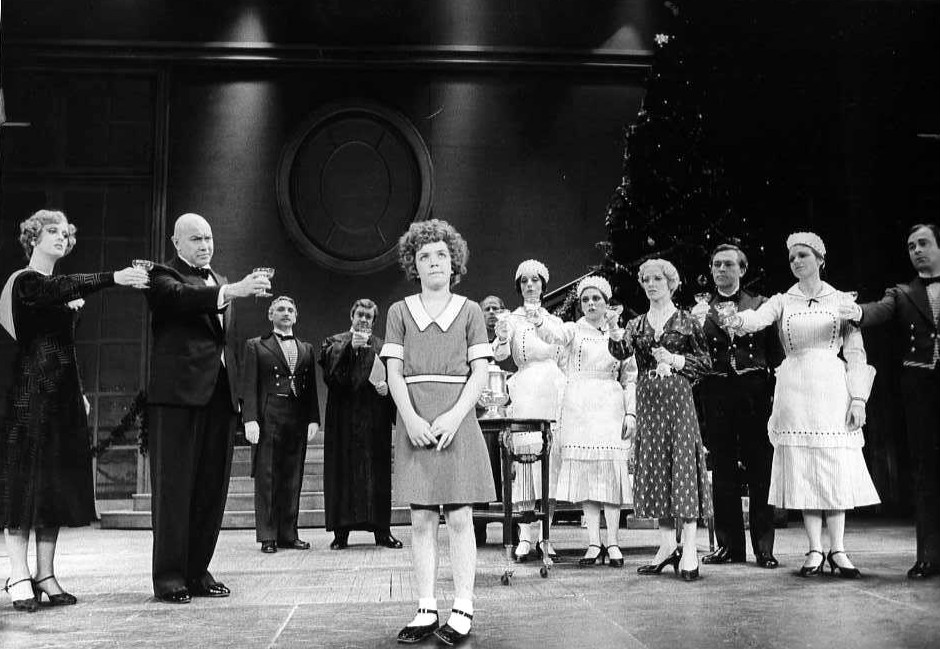 Photo of a scene from the Musical Annie. Annie (Andrea McArdle) is toasted by Daddy Warbucks (Reid Shelton), his secretary (Sandy Faison) and the rest of the Warbucks staff.